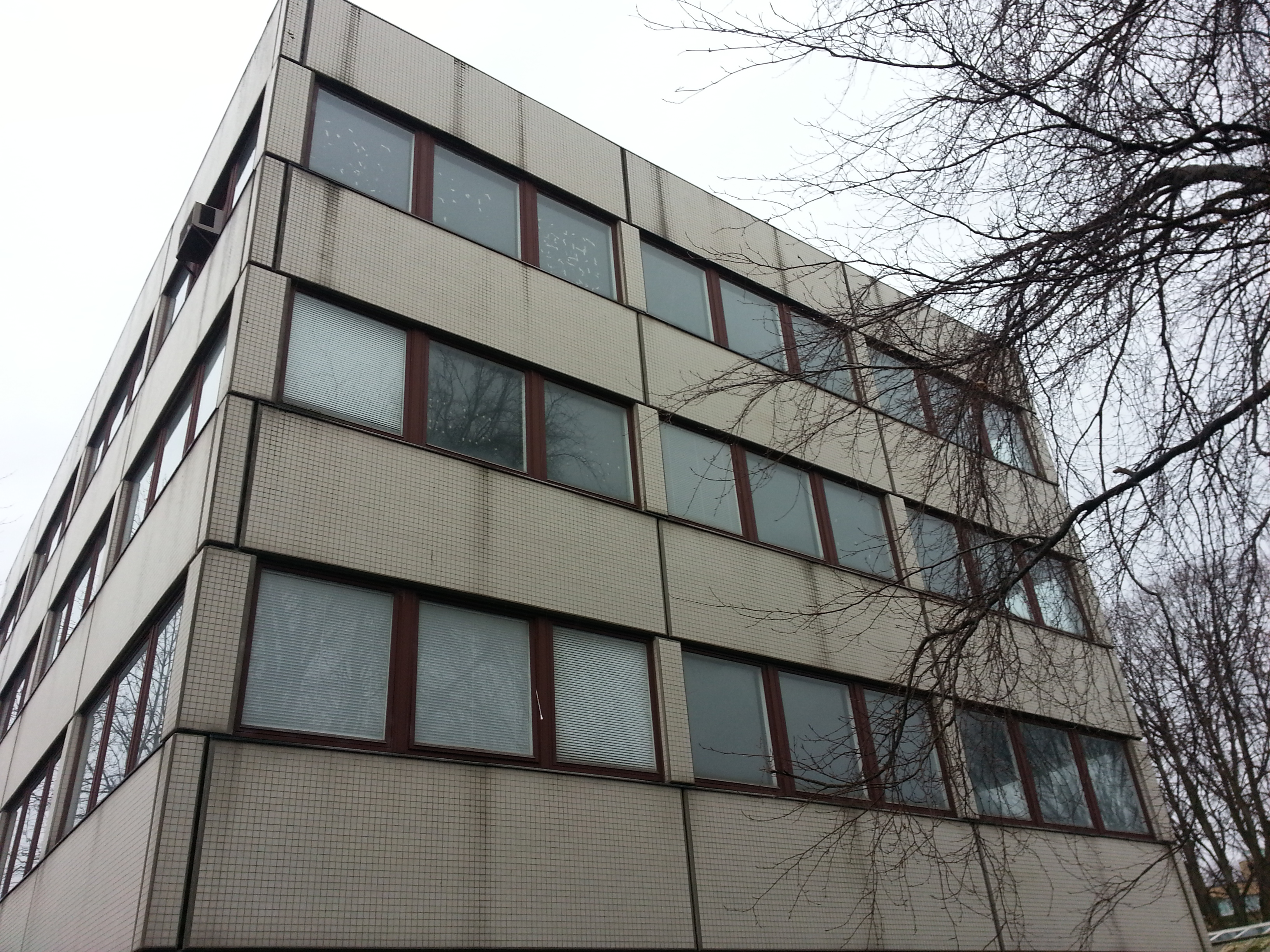 Former MRC Epigenetics Building, King's Buildings, University of Edinburgh. This used to house C.H. Waddington’s Epigenetics Laboratory, which opened in 1965.